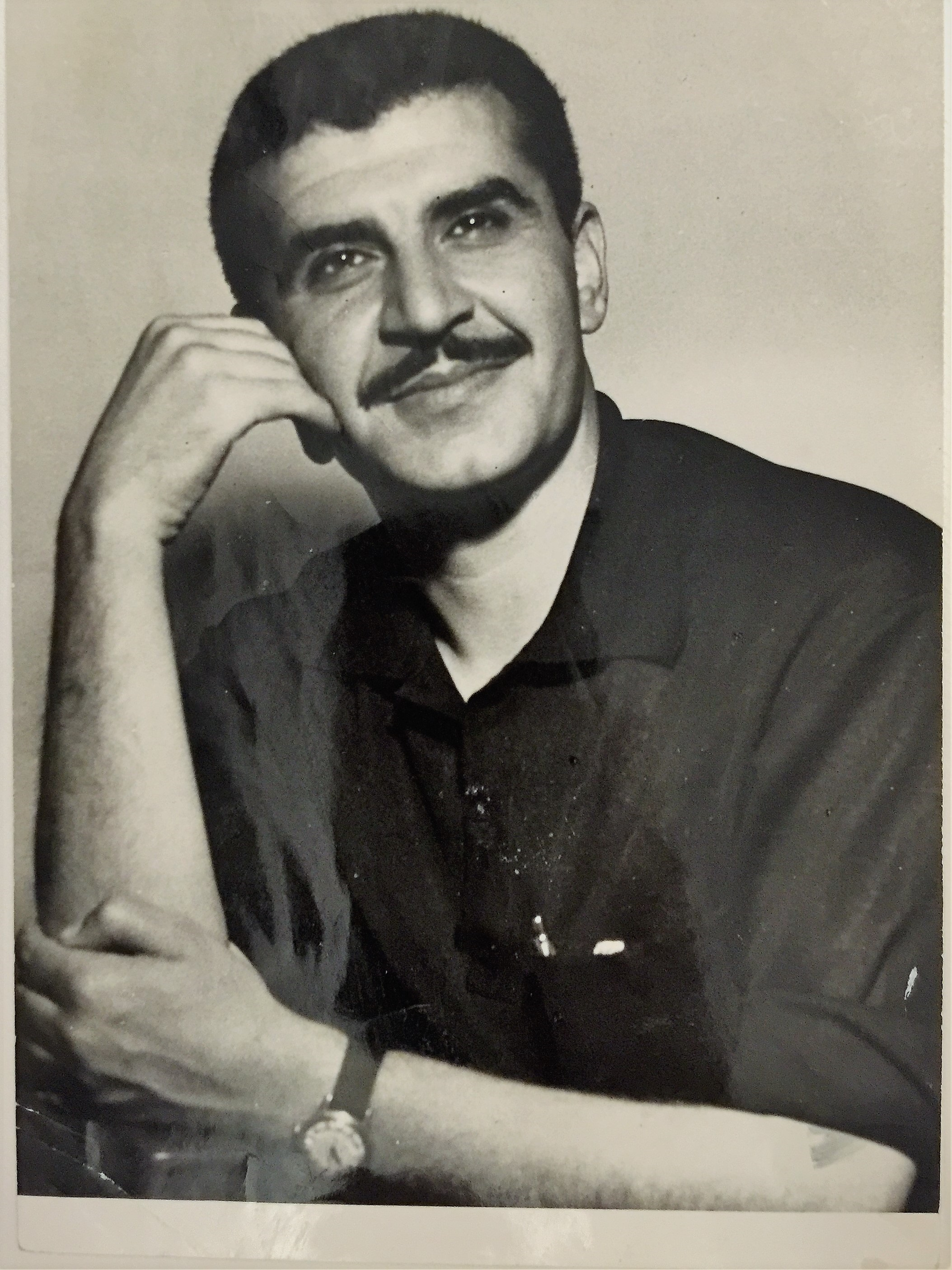 Anwar Kamel